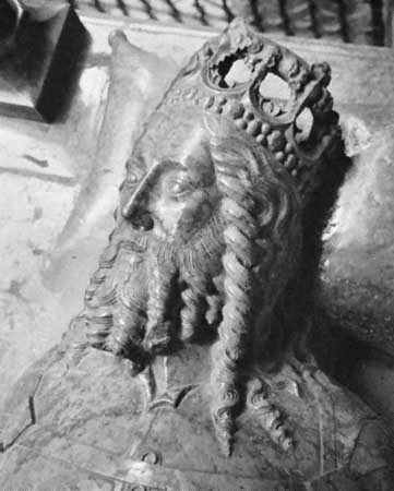 Casimir III the Great, sarcophagus figure, in Wawel Cathedral, Kraków, Poland.